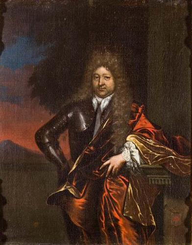 Portrait of Johan Herman van Nagell.